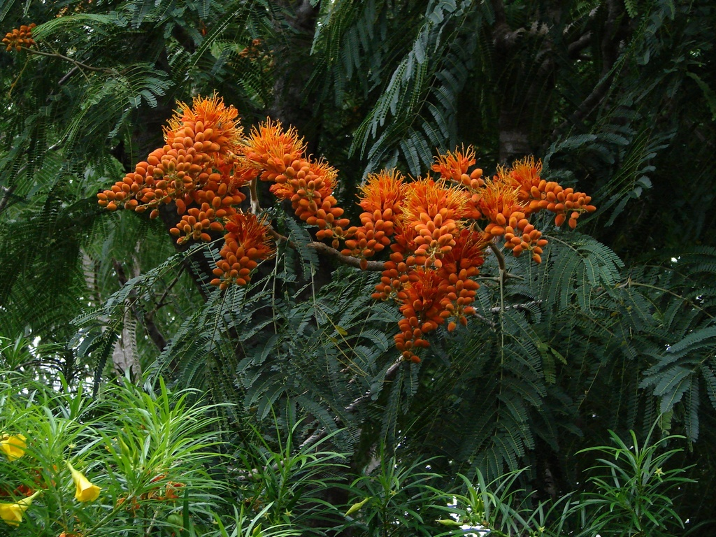 Colvillea racemosa, Mount Coot-tha Botanic garden, Brisbane, Australia